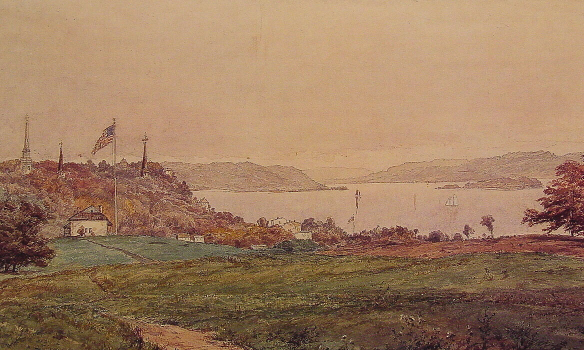 Looking North on the Hudson